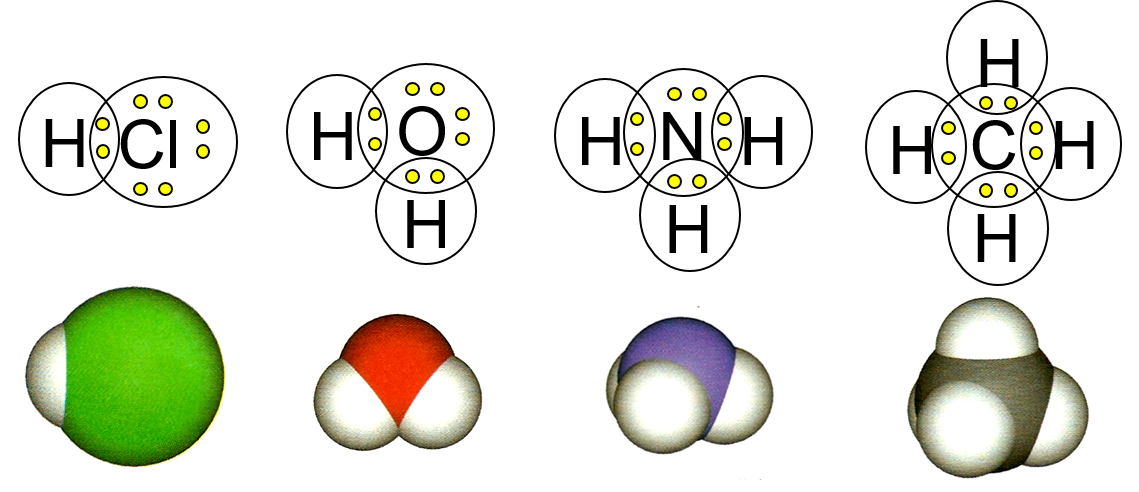 Covalent bonds